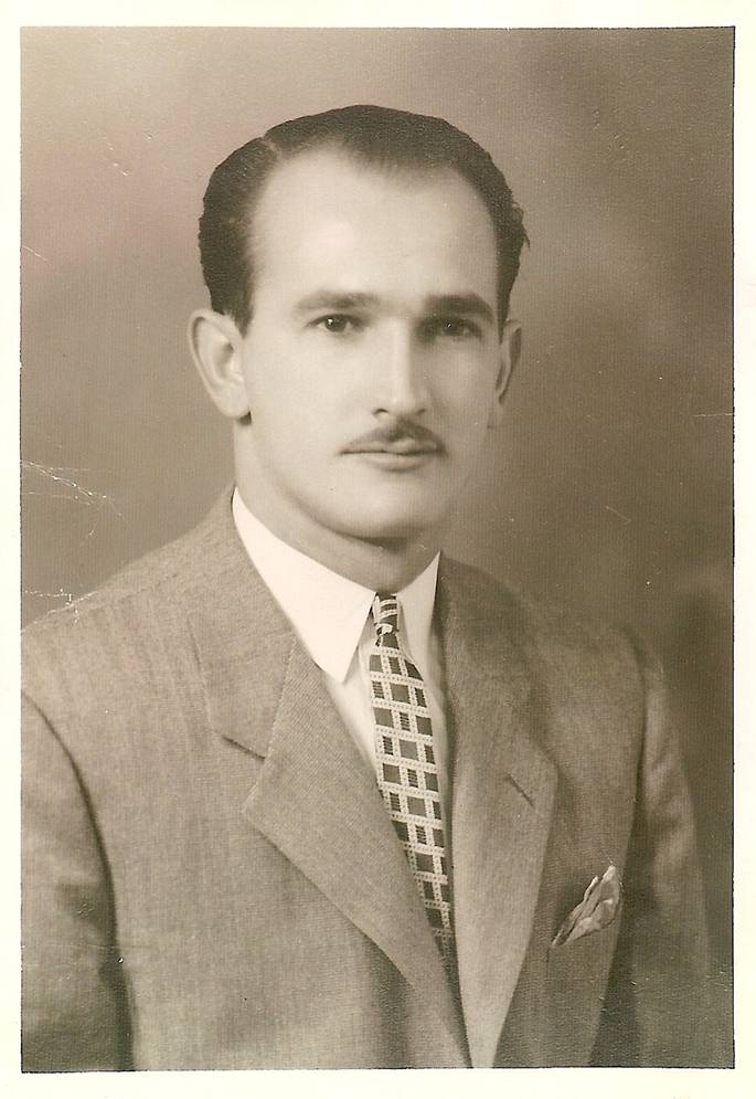 Dr. Leon J. Meek`s picture, Head of the Juridical Office of the Ministry of Labour (Colombia)